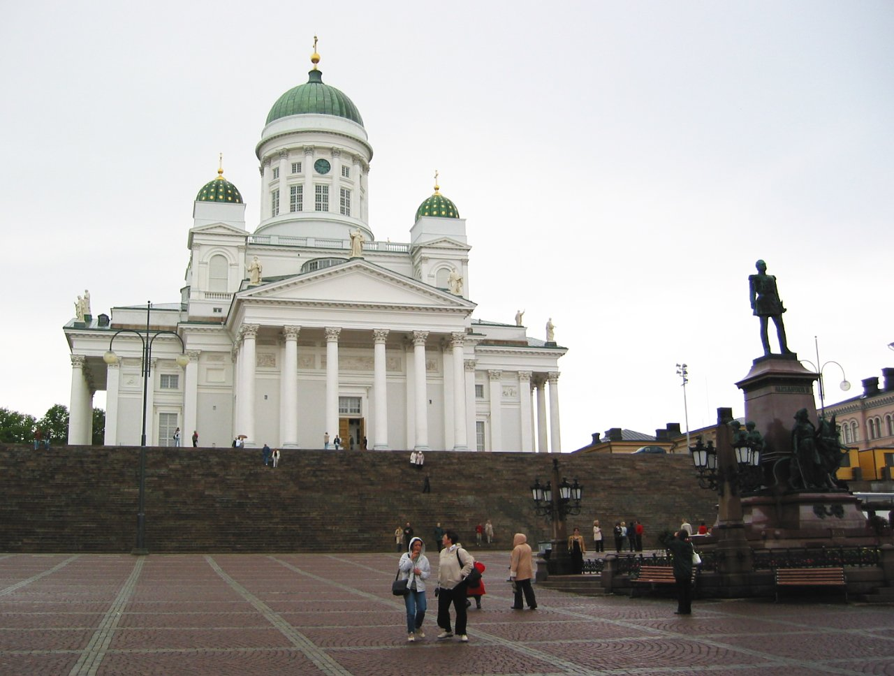 Helsinki Cathedral